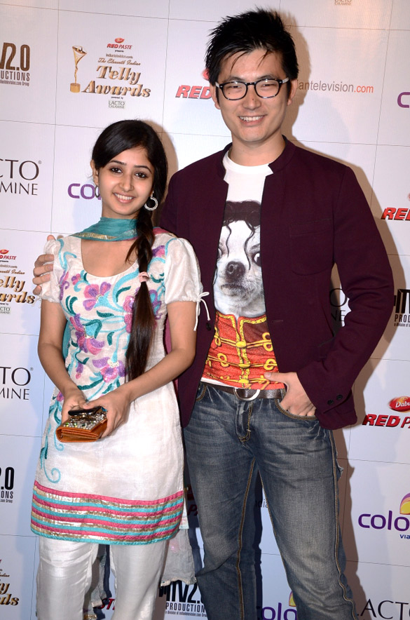 colors indian telly awards